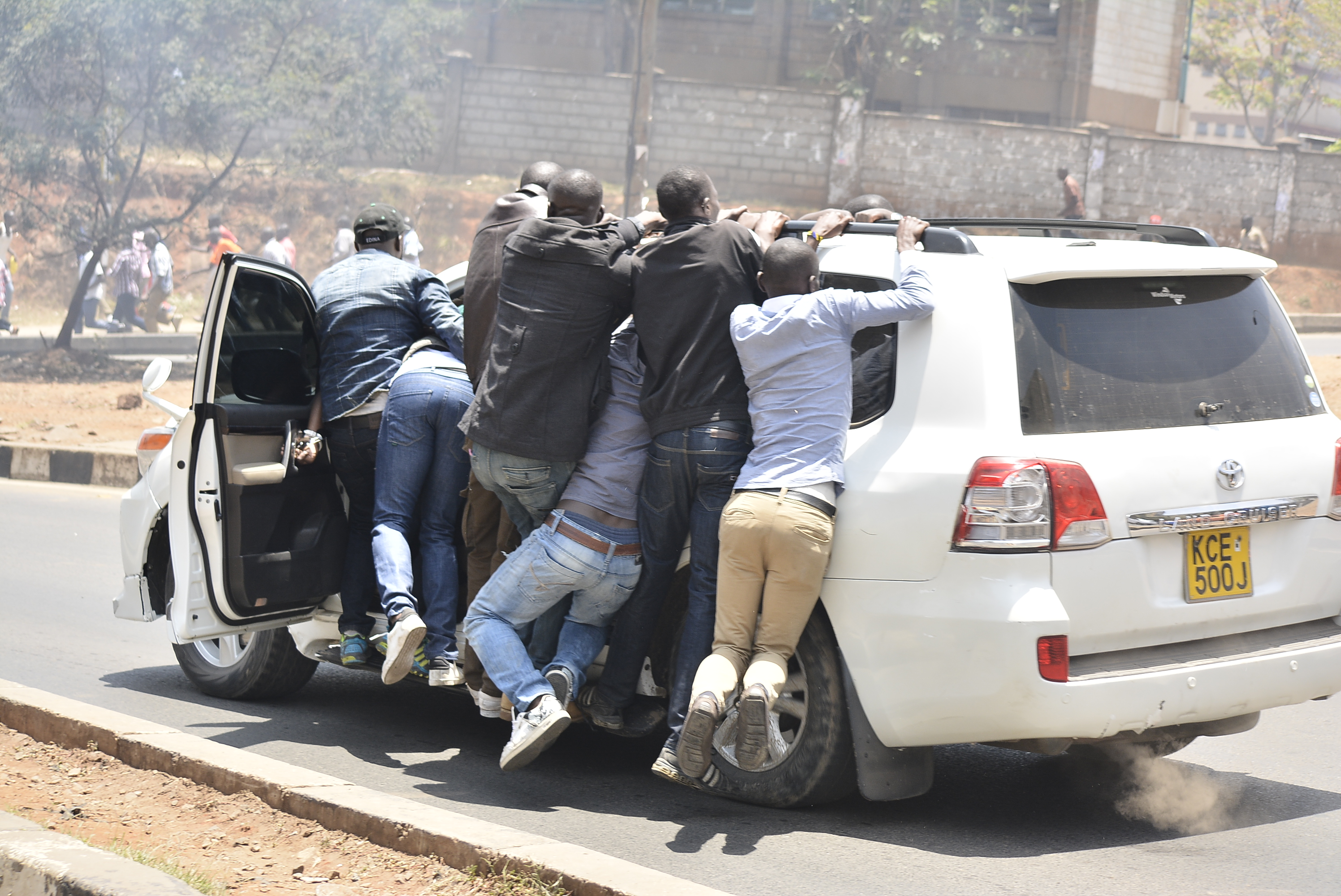 Security detail of a member of parliament in Nairobi Kenya hang on the car as they flee the member of parliament out of the scene during a riotous demonstrations that turned out ugly and the police start shooting to disperse crowds in the city center. This is an image with the theme "Africa on the Move or Transport" from: Kenya